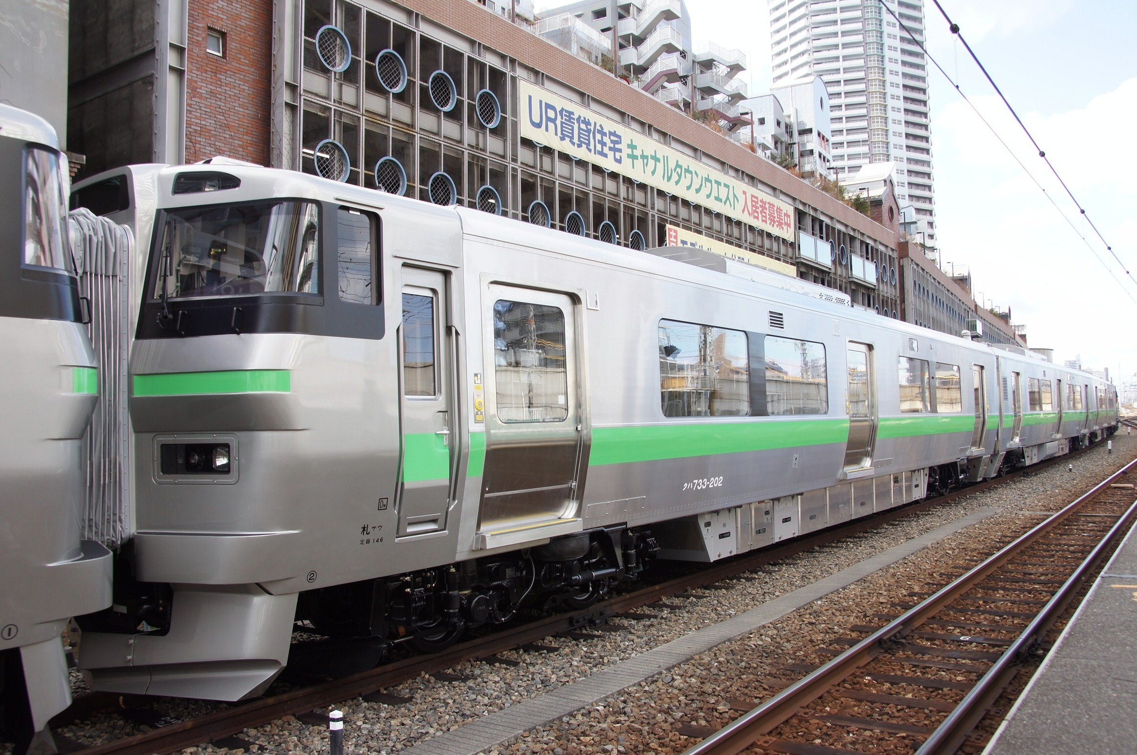 JR Hokkaido 733 series 3-car EMU set B-102 (and B-101) at Hyogo Station on delivery from Kawasaki Heavy Industries